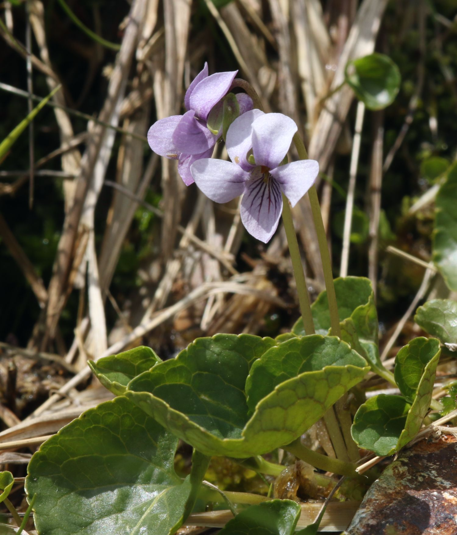 Viola palustris in Malá Studniční jáma, Krkonoše Mountains, Czech republic